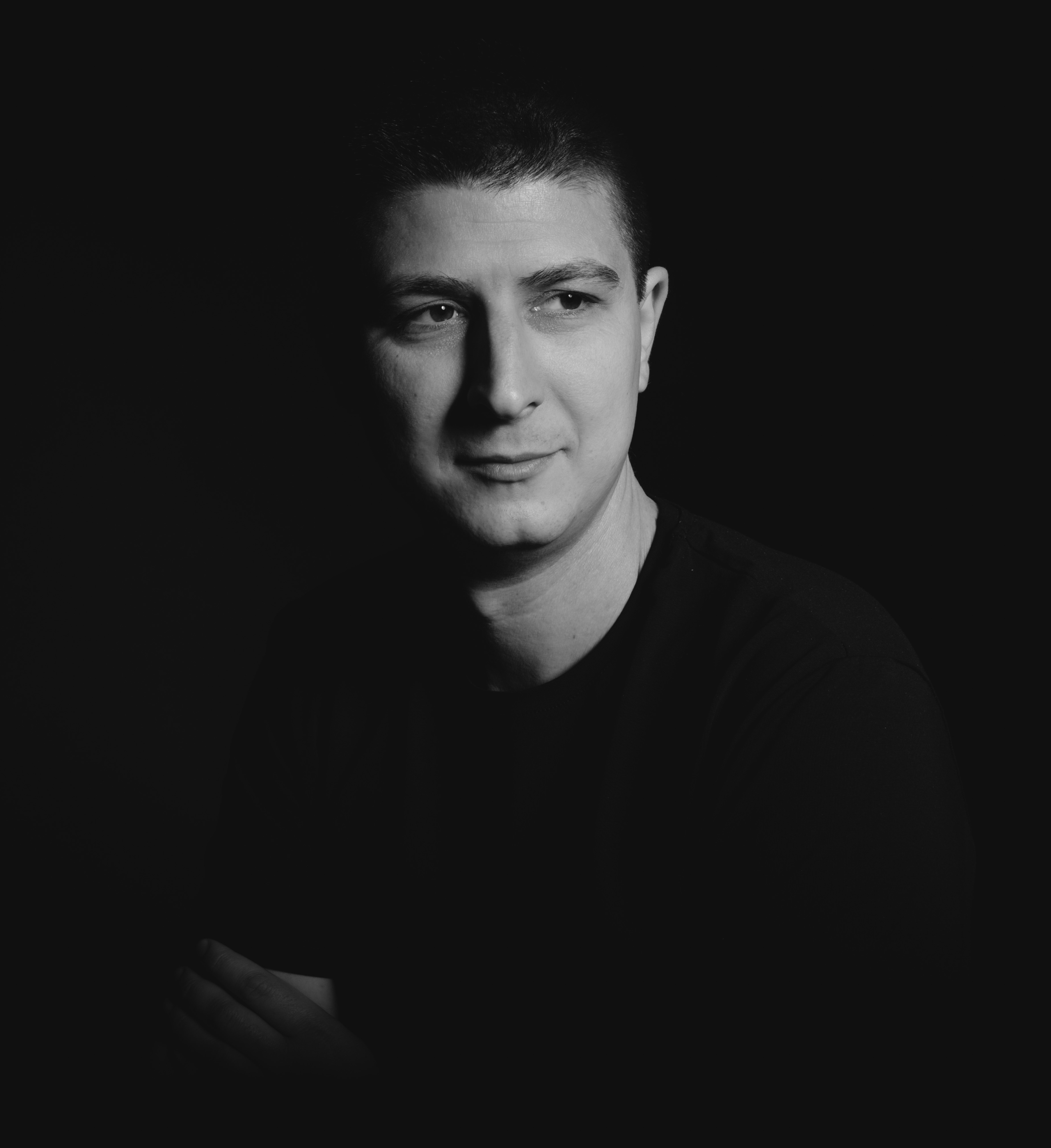 Andrija Jonić, književnik, 2017